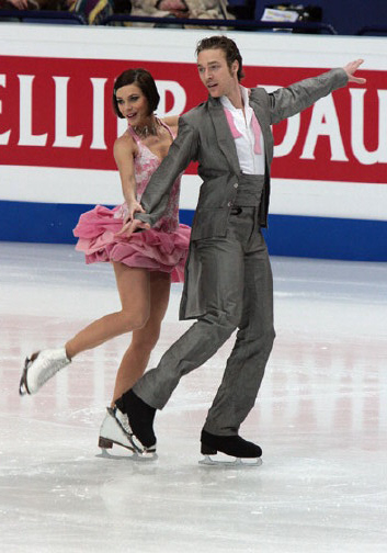 Nathalie PECHALAT & Fabian BOURZAT during their Finnstep compulsory dance at the 2009 European Figure Skating Championships